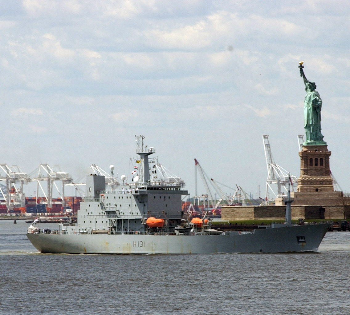 060524-N-4936C-003 - The British Royal Navy ocean survey vessel HMS Scott (H131), sails pass the Statue of Liberty in New York Harbor, headed for a Manhattan pier to participate in the 19th Annual Fleet Week New York City. Fleet Week has been sponsored by New York City since 1984 in celebration of the United States sea service. The annual event also provides an opportunity for citizens of New York City and the surrounding Tri-State area to meet sailors, and marines, as well as witness first hand the latest capabilities of today's Navy and Marine Corps team. Fleet week includes dozens of military demonstrations and displays, including public tours of many of the participating ships.